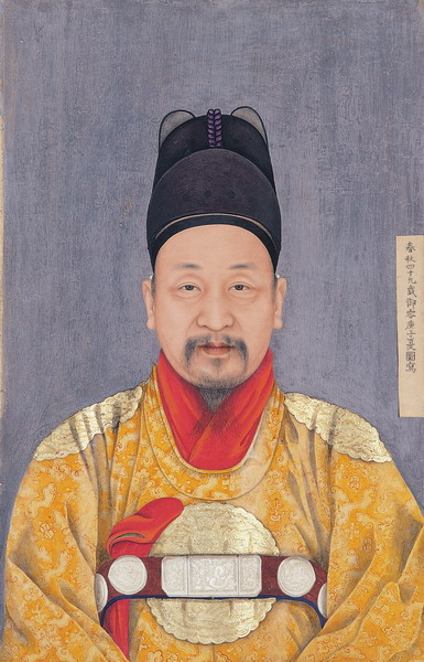 Portrait of Emperor Kojong of Korea